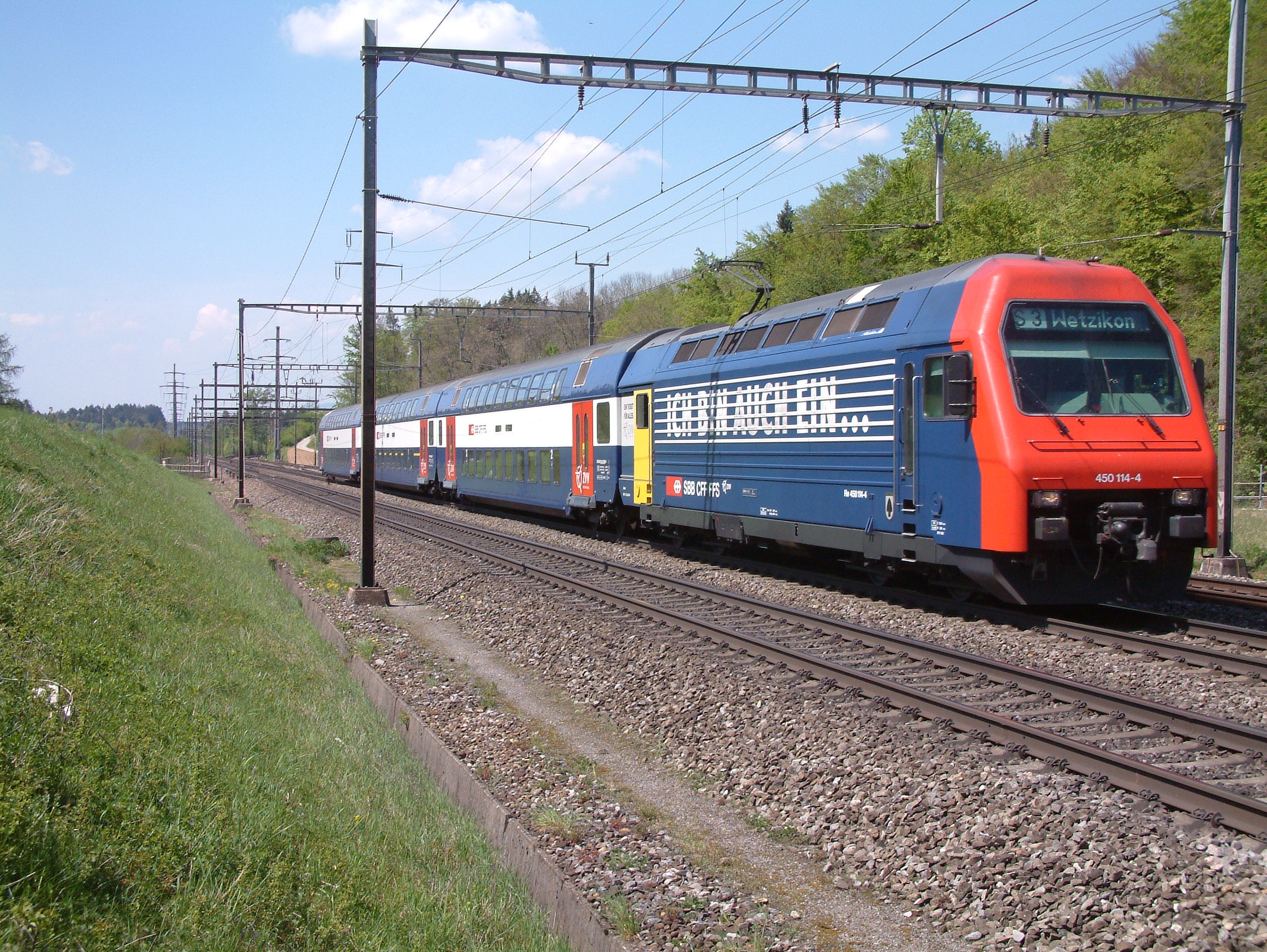 local train Type 450 area Zürich (S3 to Wetzikon; S Bahn )